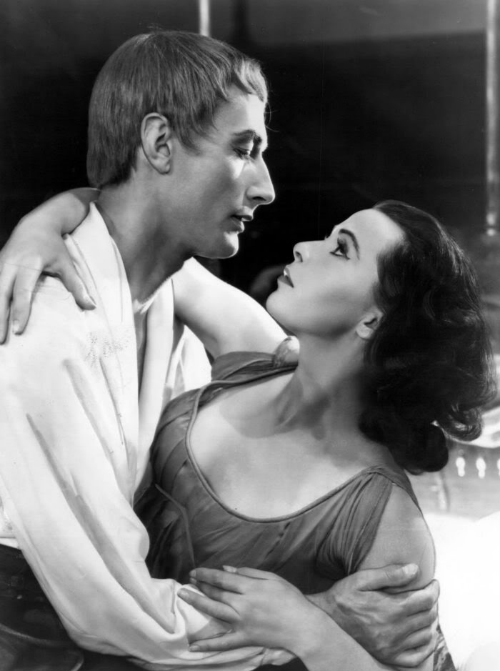 Photo of John Neville and Claire Bloom in Romeo and Juliet from the television program Producers' Showcase.